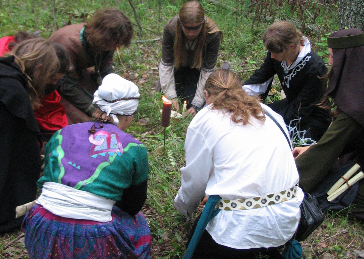 Eight magicians doing a ritual at a live action role-playing game BBRI4 in Visaginas, Lithuania (July 27-30, 2006).